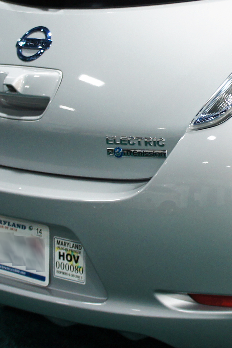 Maryland Plug-in vehicle sticker for free access to HOV lanes. The vehicle is a Nissan Leaf electric car.